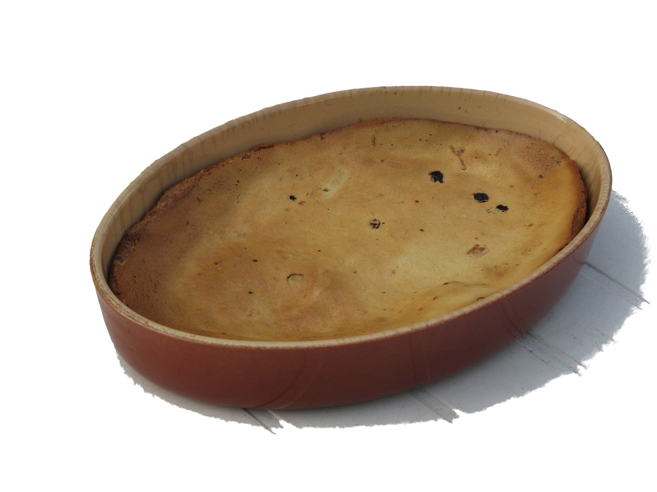 Far of Brittany